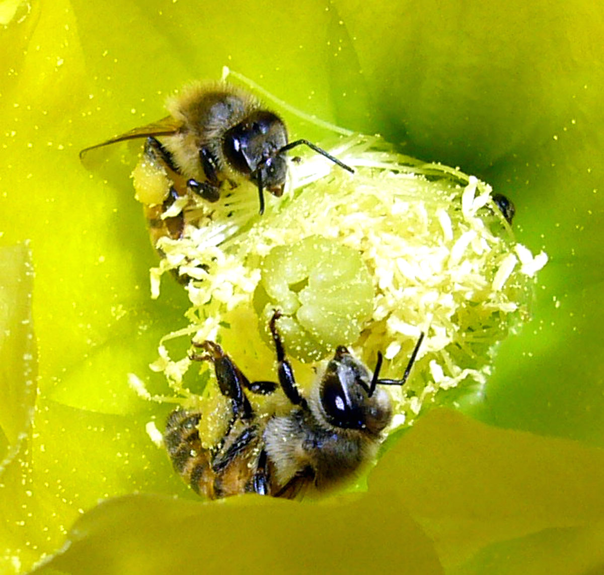 Africanized Honey Bees Pollinating a Yellow Beavertail Cactus Flower.